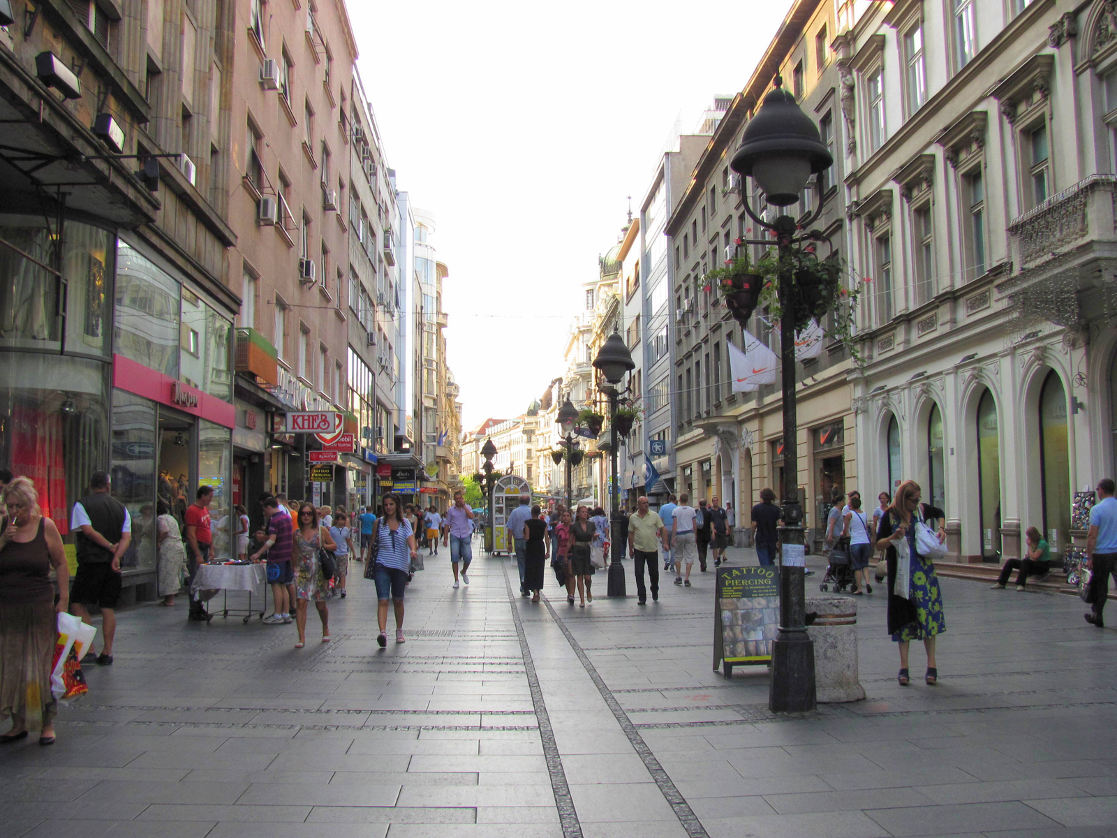 Old town area in Belgrade.